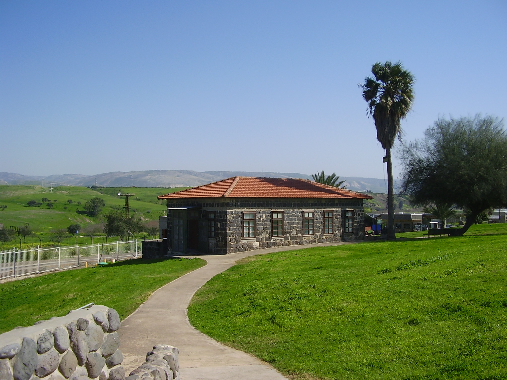 dining room in old gesher